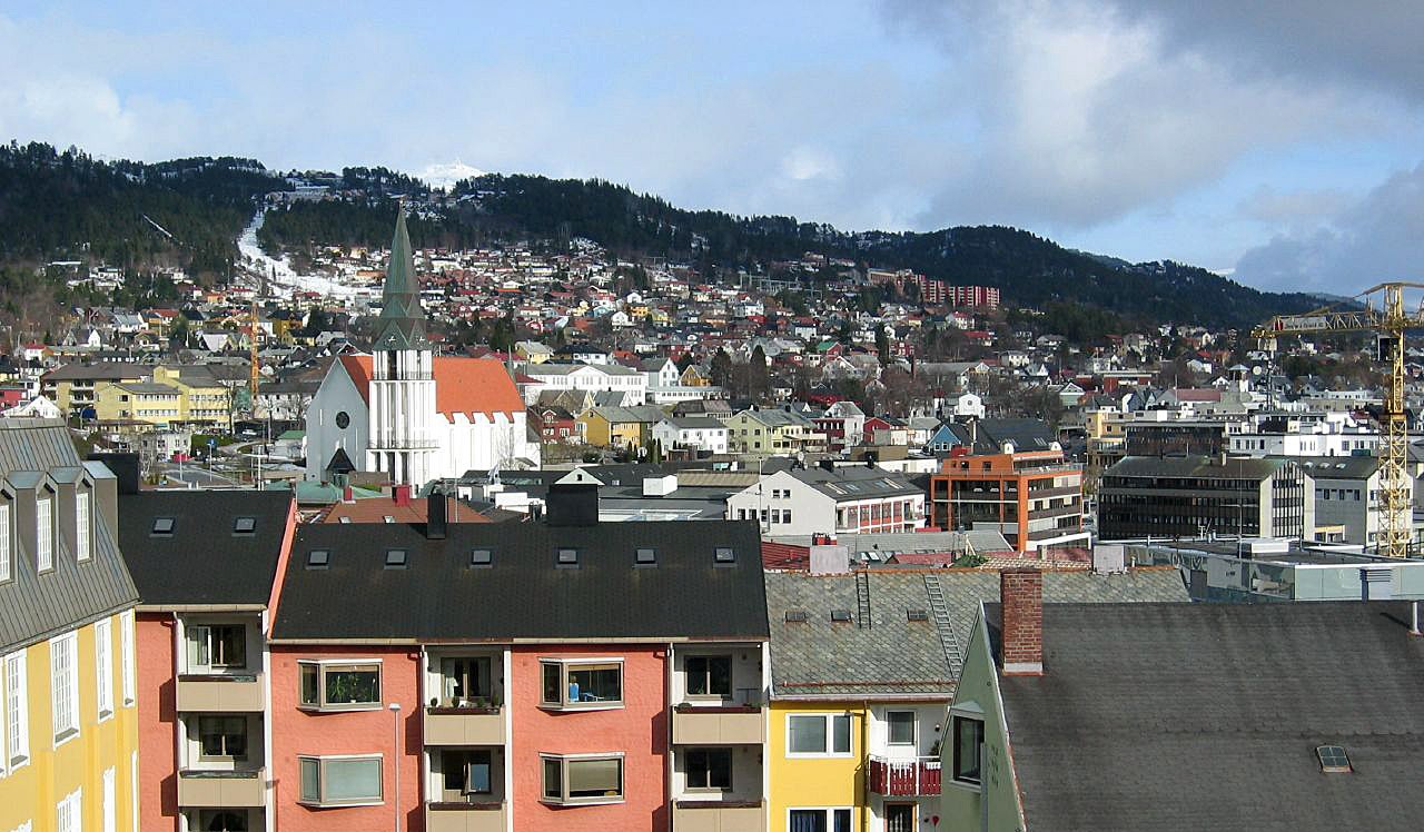 View from my former office